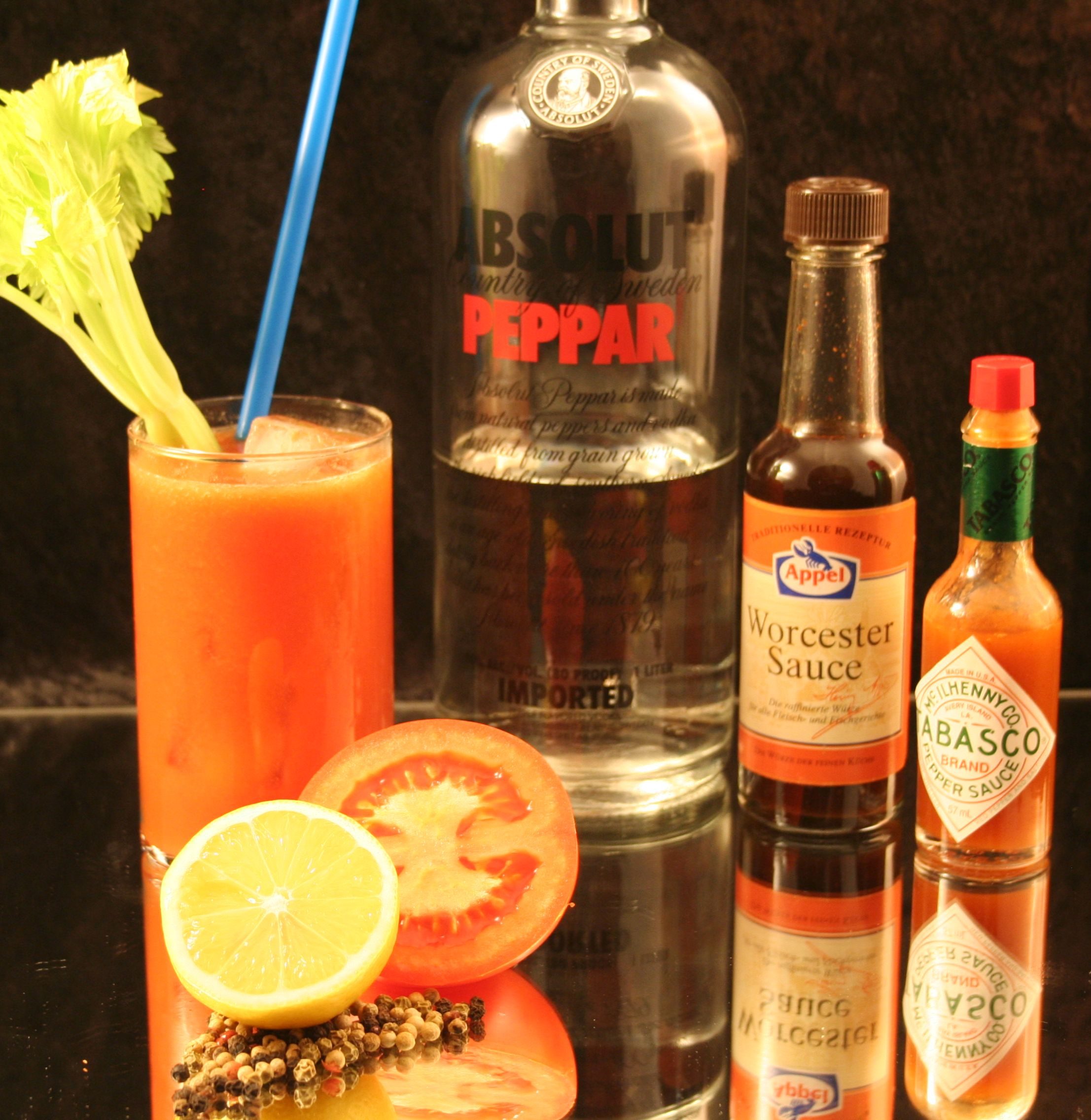 Bloody Mary